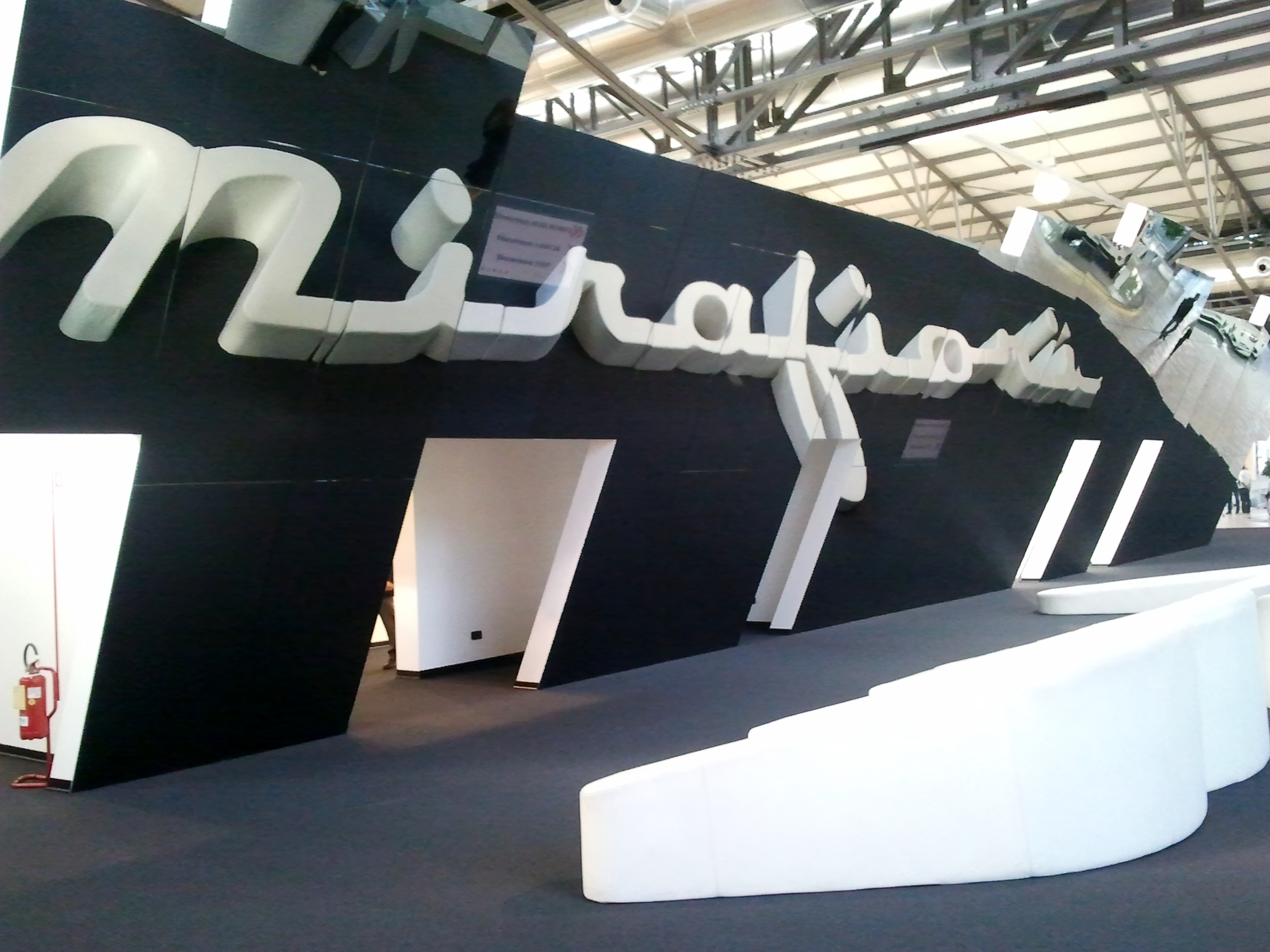 Mirafiori Motor Village. Torino. Italy